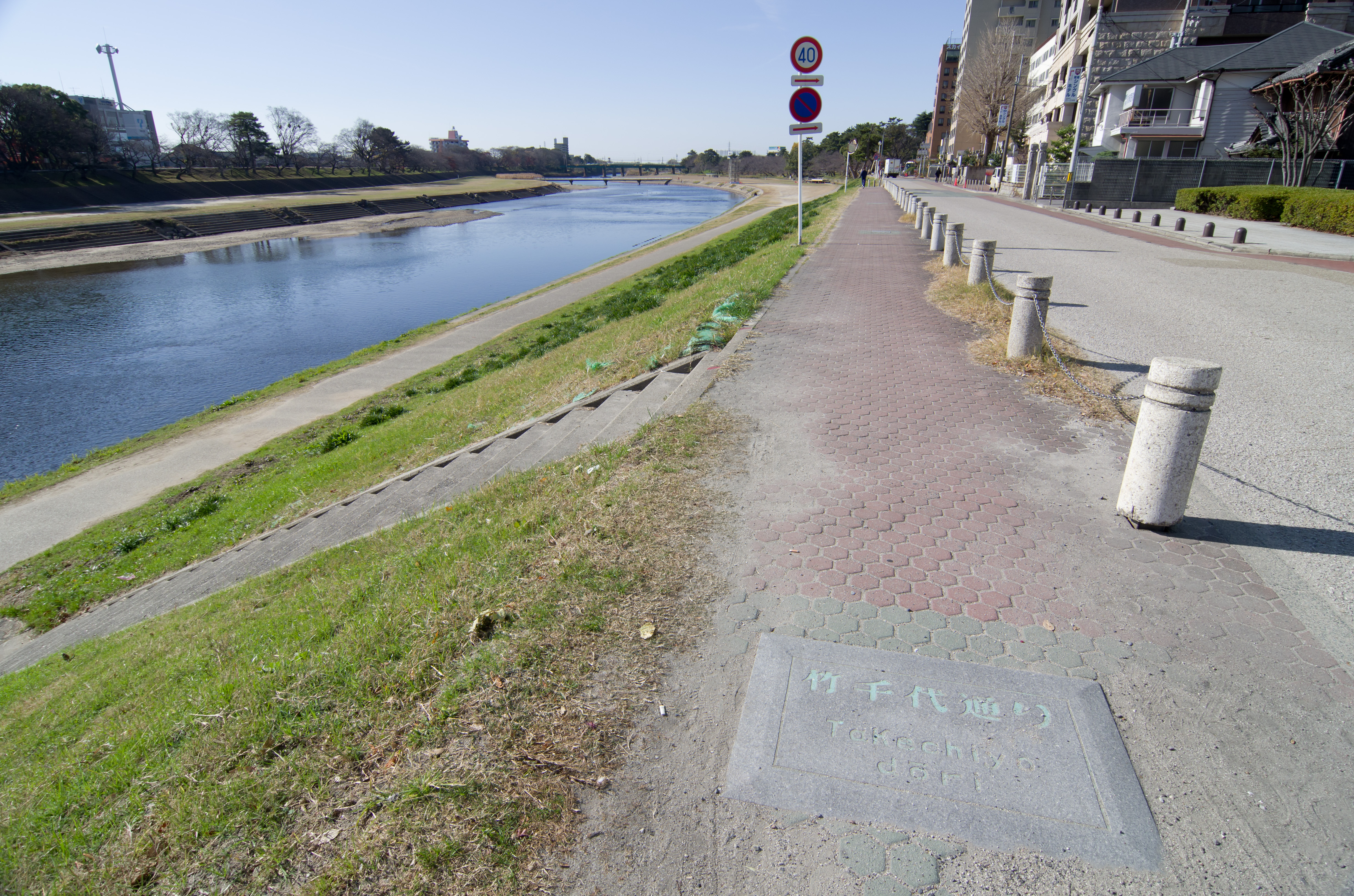 Takechiyo-dori St. in Okazaki, Aichi, Japan.